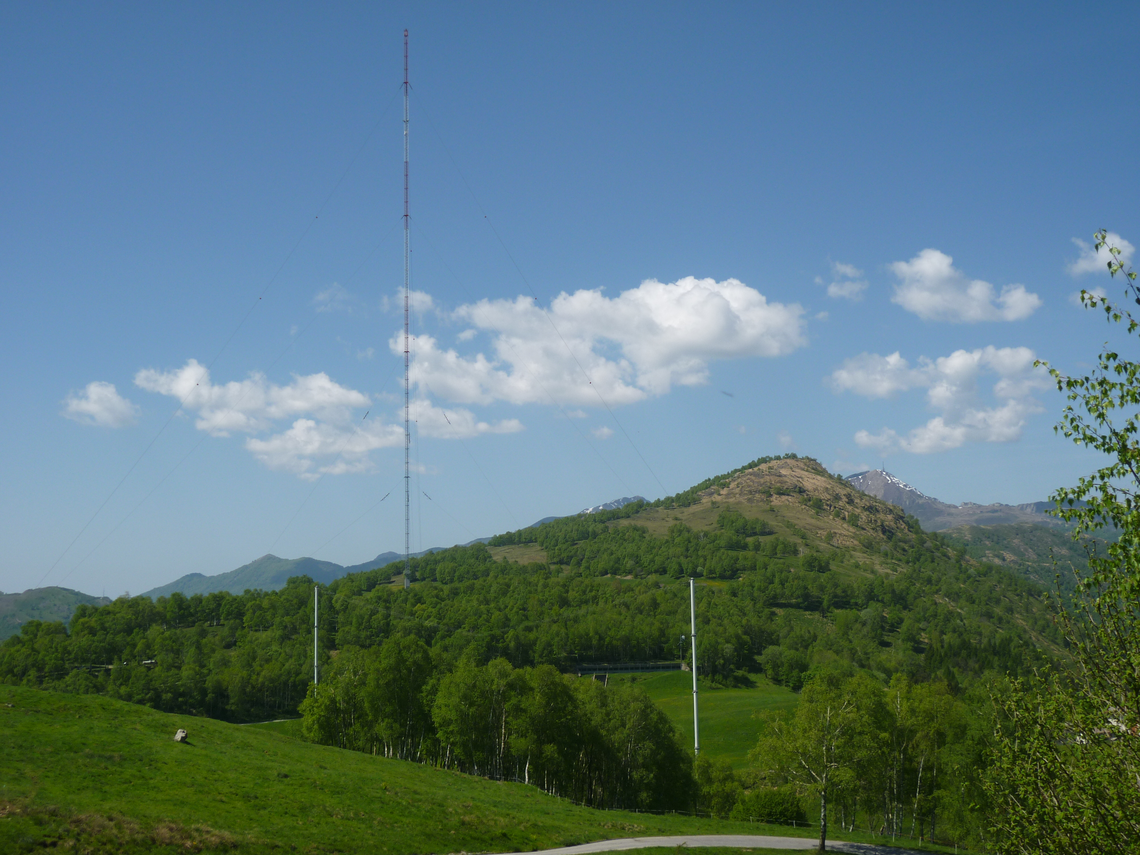 The antenna of the Monte Ceneri transmitter stands 220 meters tall.